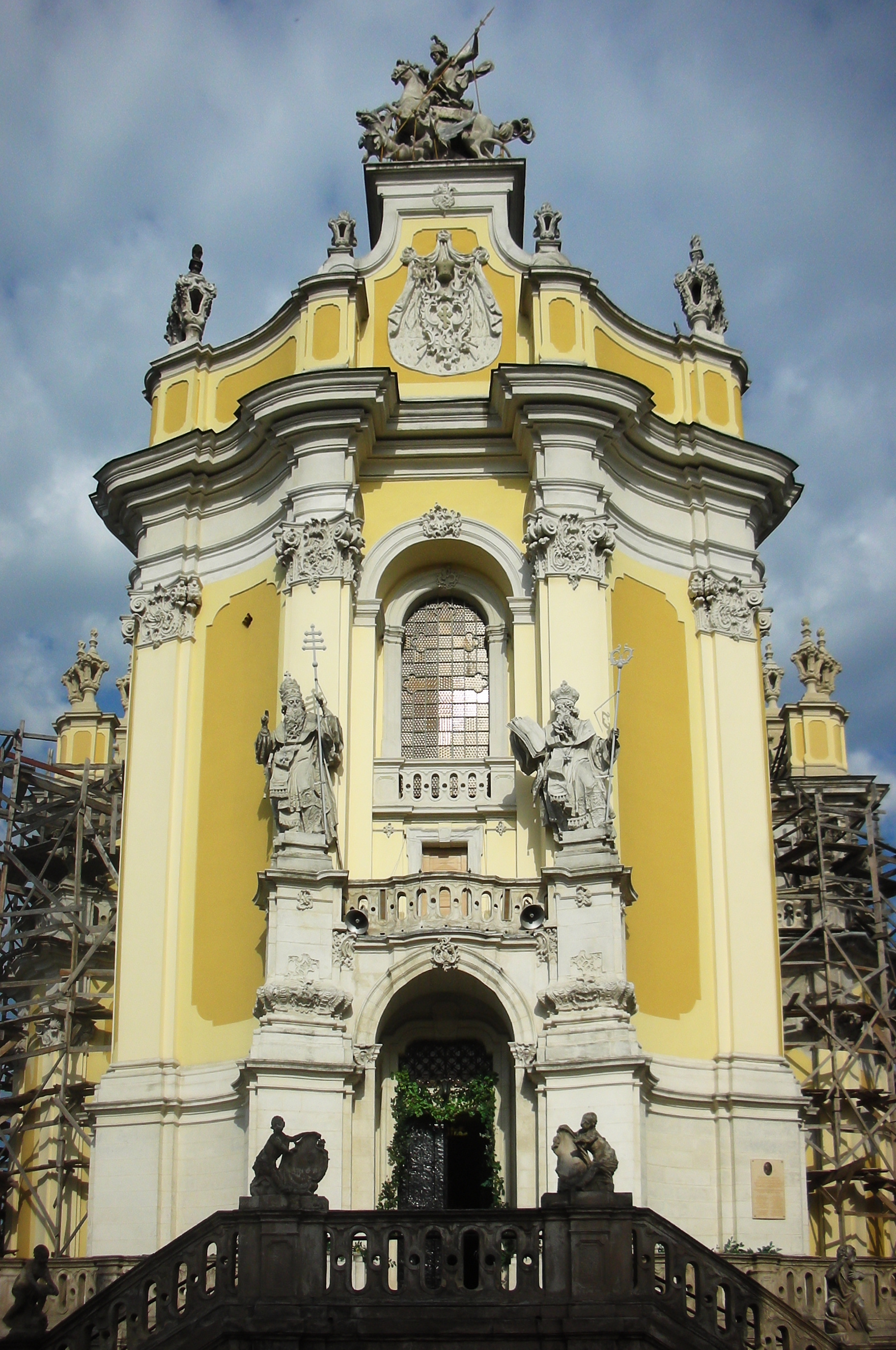 St. George's Cathedral in Lviv (Ukraine).